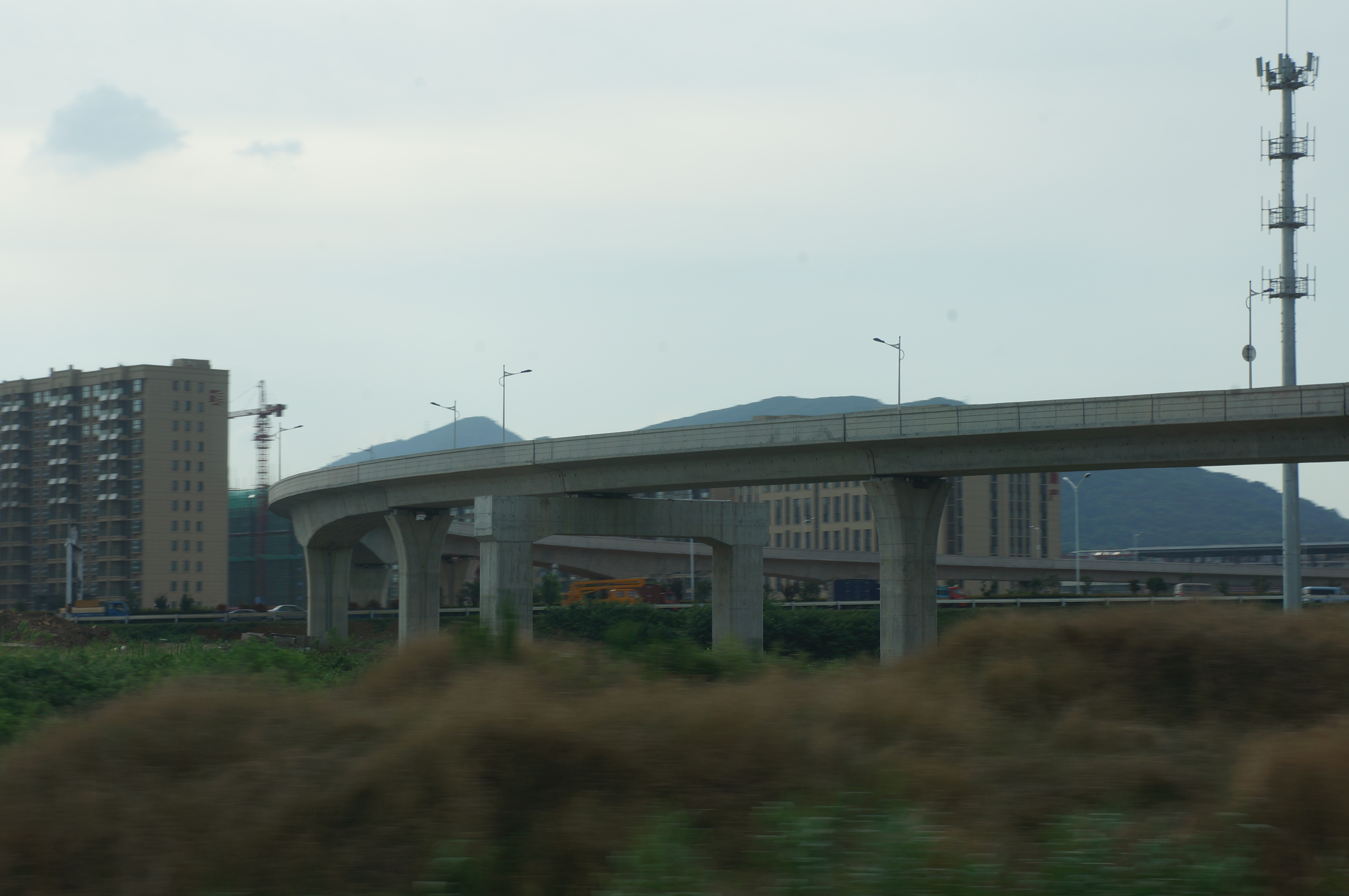 201806 Qilin Tram Bridge near Jinmalu